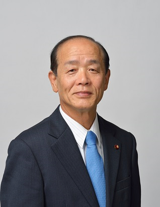 Yagi Tetsuya was inaugurated as Parliamentary Vice-Minister of the Environment on September, 2019